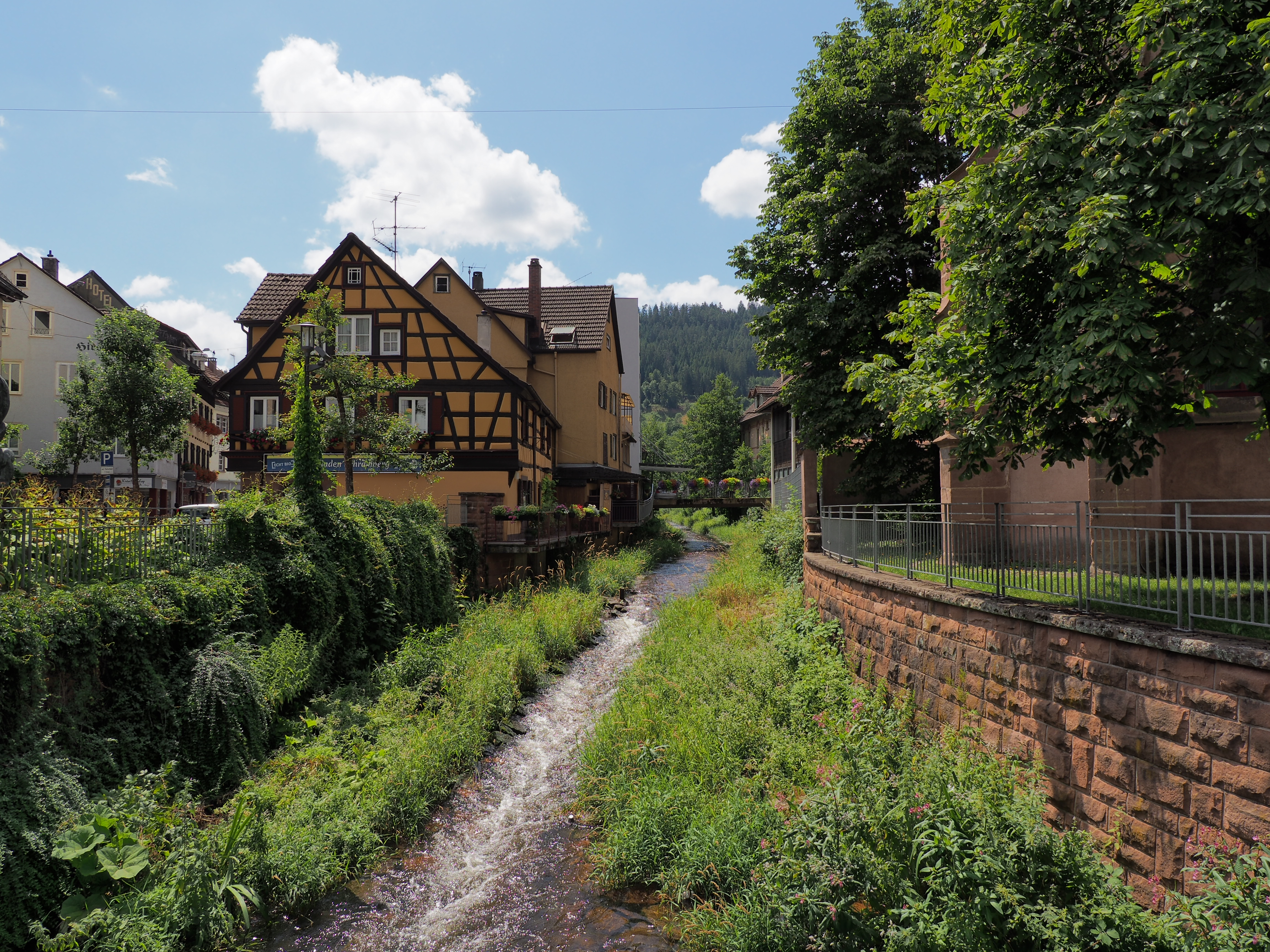 Schiltach